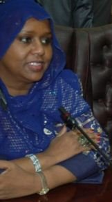 Foreign Minister of Somalia, Fowsiyo Yussuf Haji Aadan.